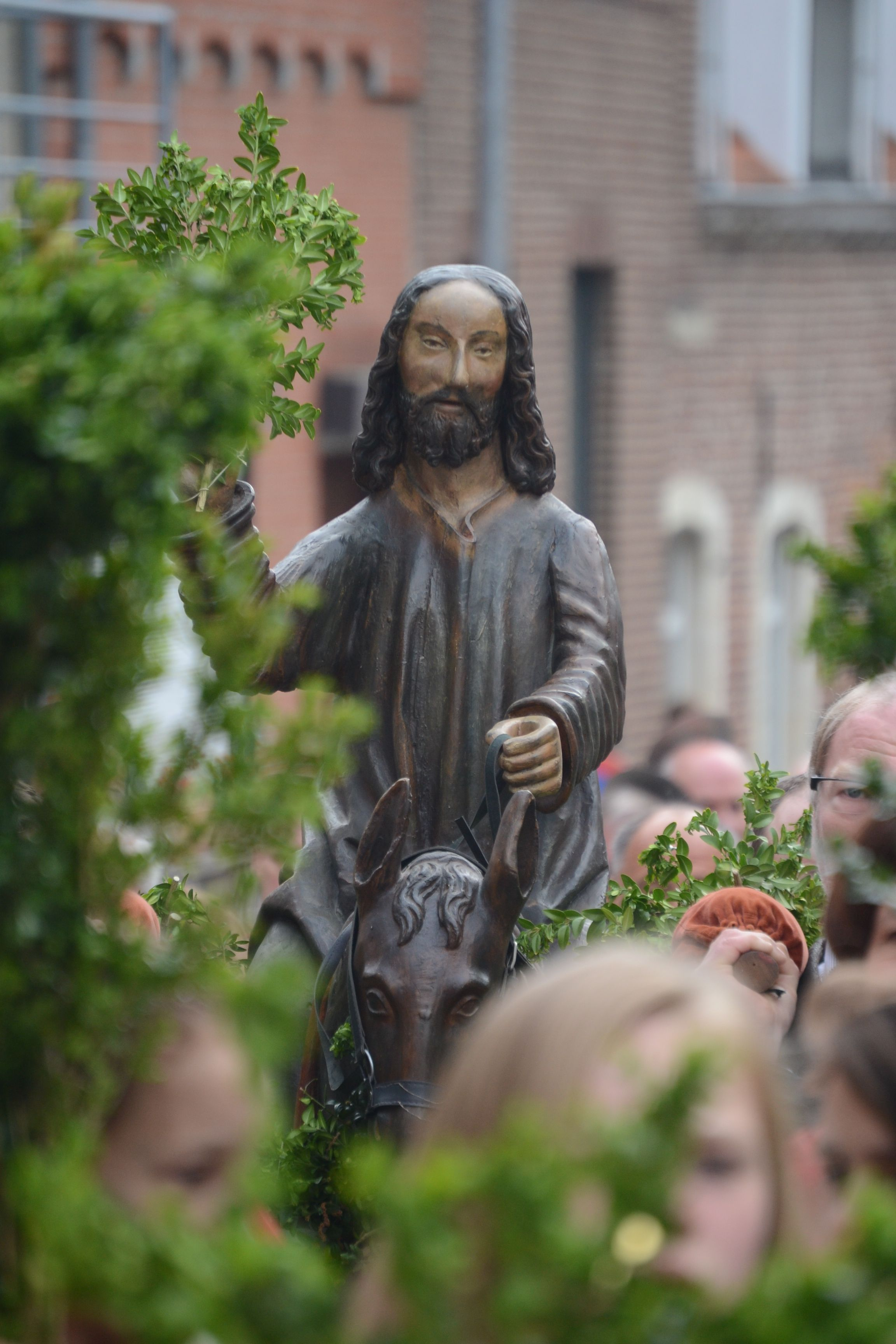 Palm Sunday procession in Hoegaarden